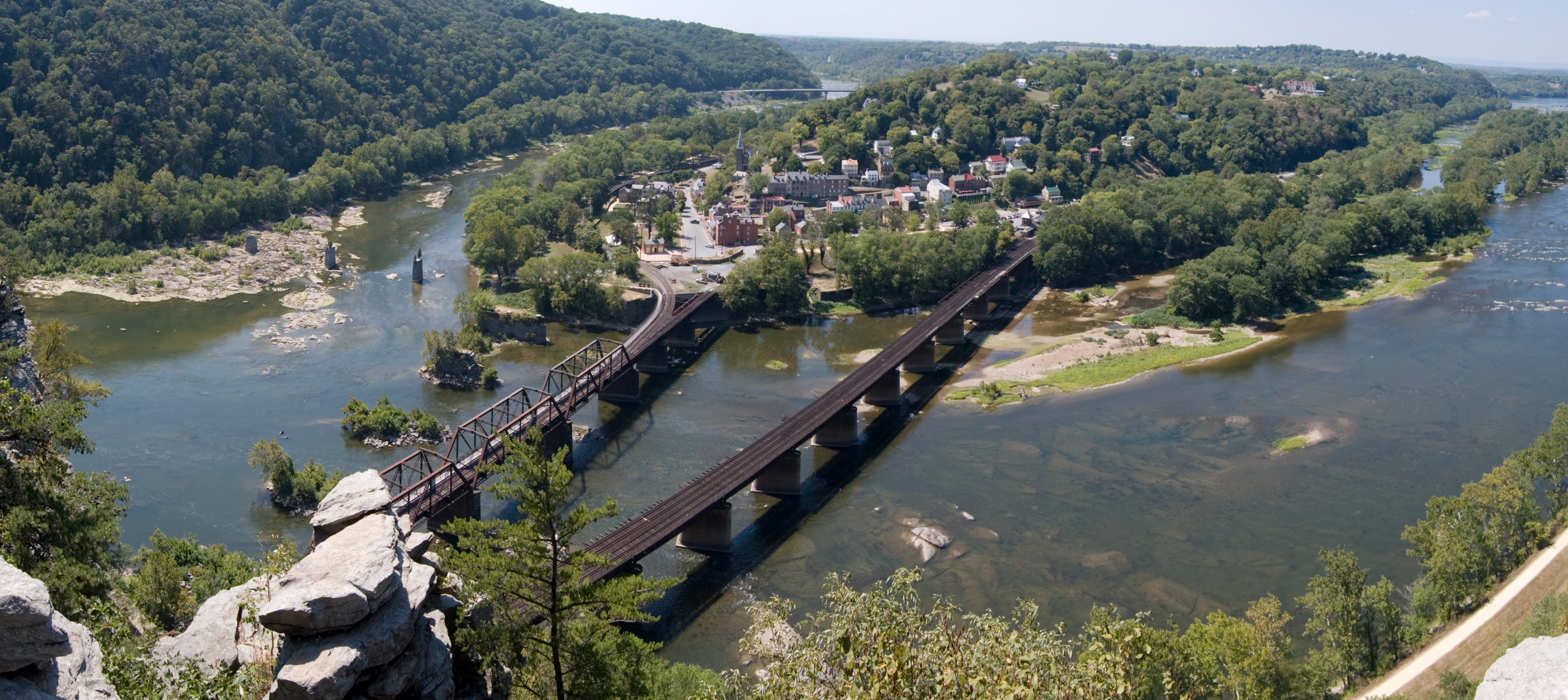 Panoramic view of Harpers Ferry from Maryland Heights, with the Shenandoah (left) and Potomac (right) rivers. (This is a cropped version, excluding the non-rectangular border which resulted from stitching.)